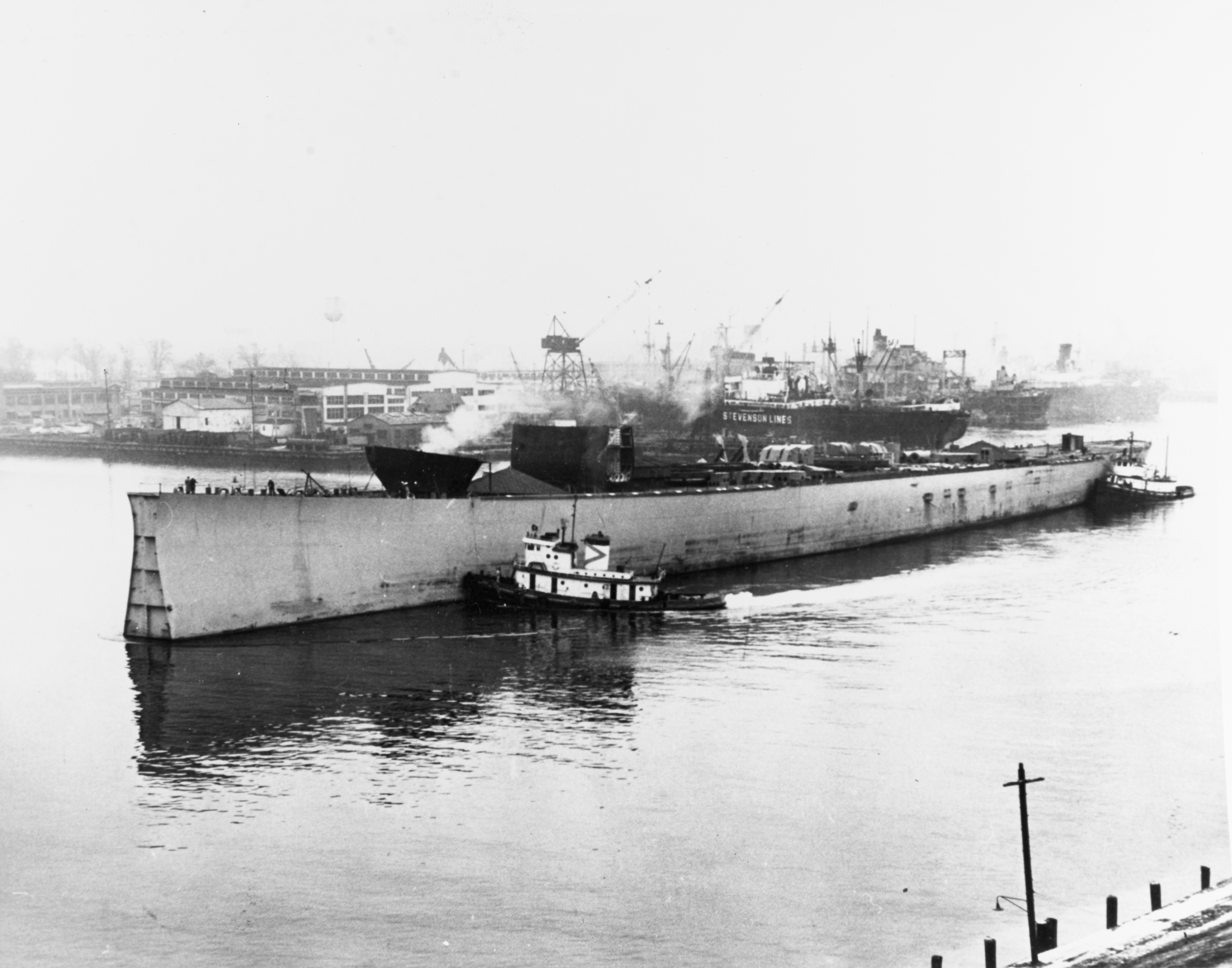 Being towed to the Boston Metals Company, Baltimore, Maryland, for scrapping, 31 October 1958. Note bow sections and 5/38 gun shields on her deck. Courtesy of the Boston Metals Company. U.S. Naval History and Heritage Command Photograph.